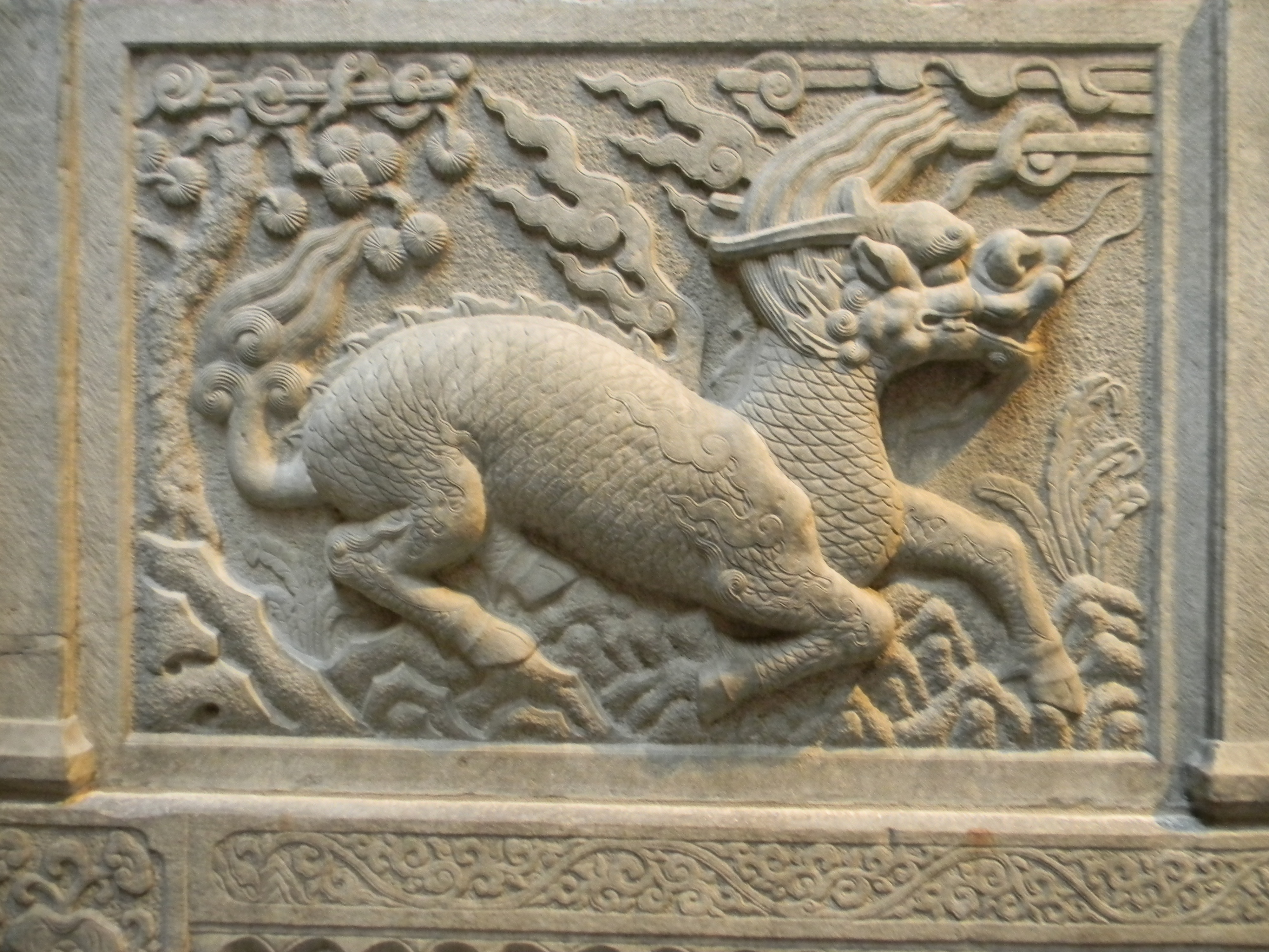 Detail from Entrance of General Zu Dashou Tomb (Ming Tomb). General Zu Dashou was celebrated for his defence of the Ming dynasty against the Manchu invasion. ROM Gallery of Chinese Architecture, Toronto, Canada